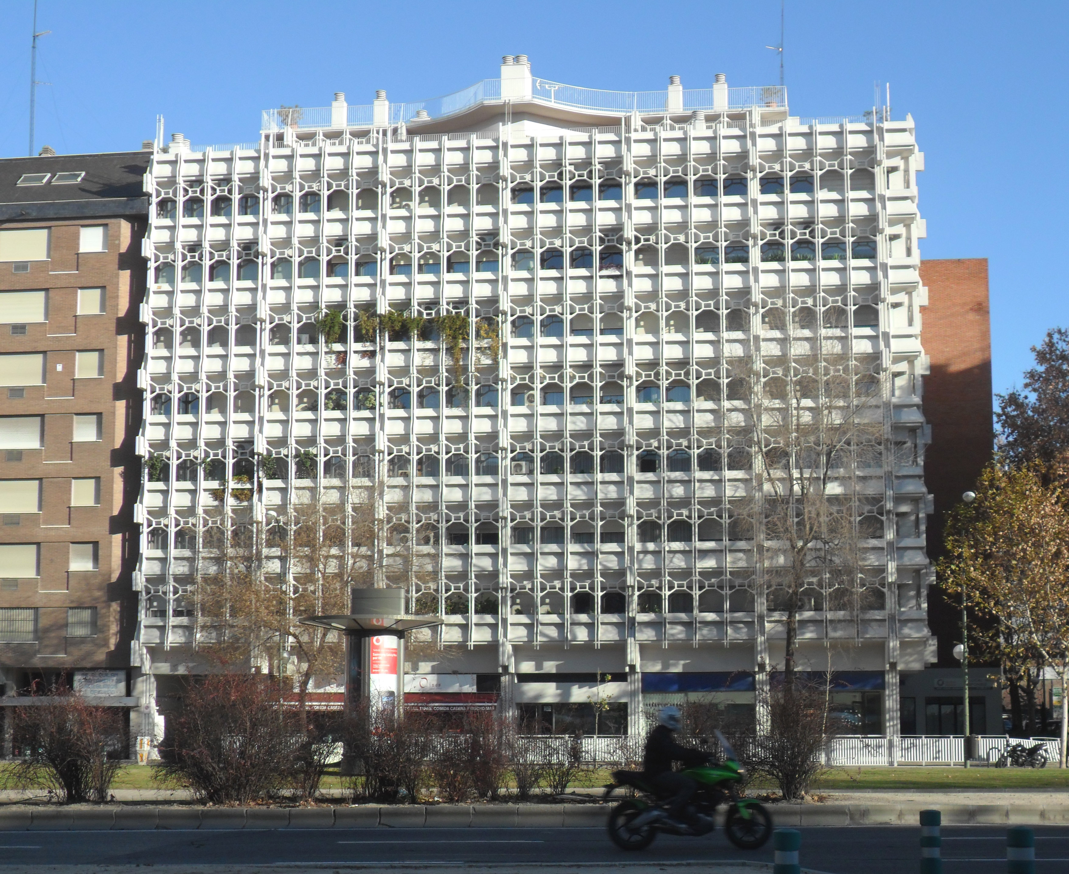 Façade of the housing building at 266 Paseo de la Castellana (avenue) in Chamartín district in Madrid (Spain). Building was designed in 1974 by Fernando Higueras and Ricardo Navarro Taboada, and built from 1976 to 1978.